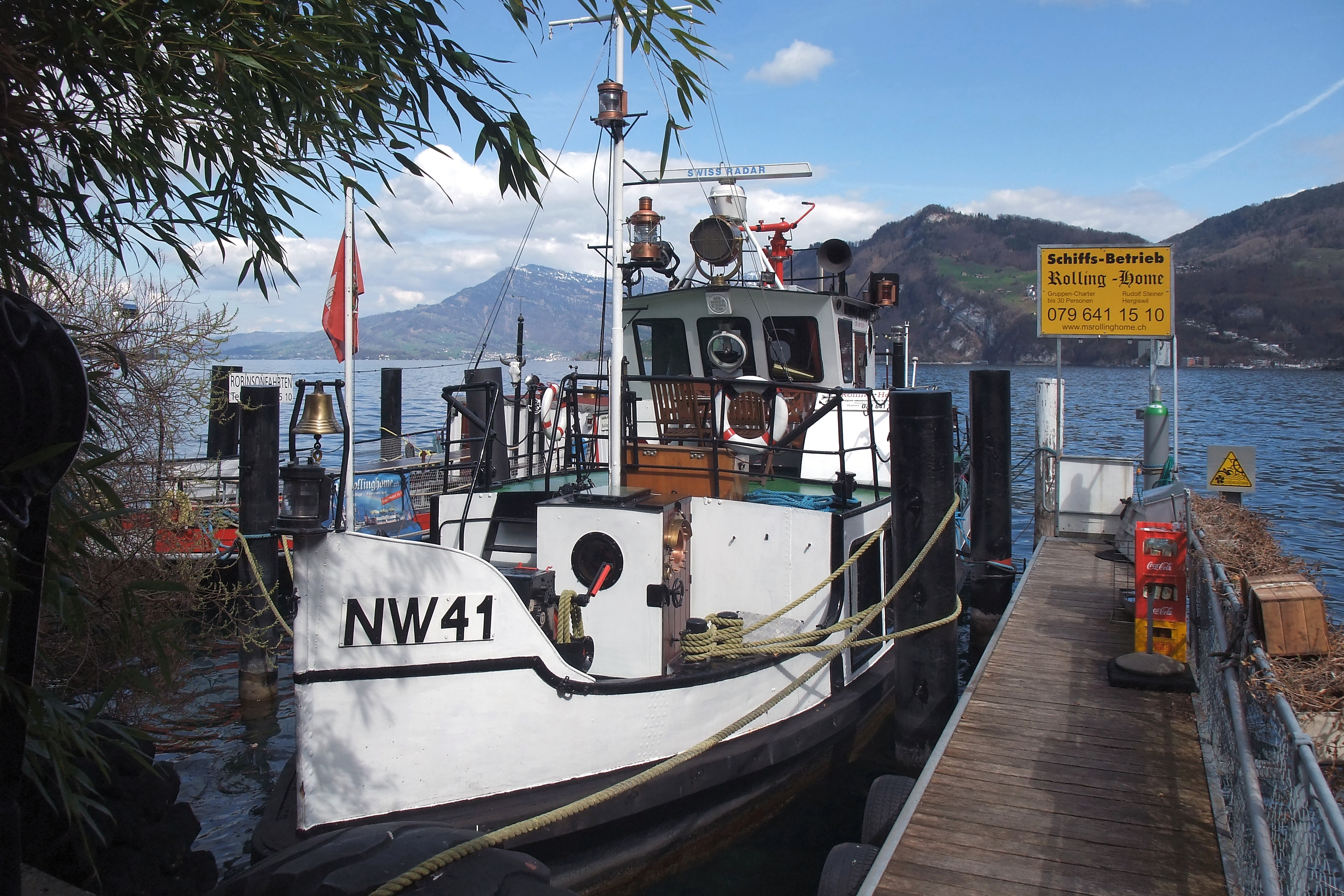 MS Rolling Home at Hergiswil, on Lake Lucerne, Switzerland. Built in 1928 by a shipyard in Mohndorf near Bonn, Germany, as a Rhine-tugboat, it operates as charter boat on Lake Lucerne from Hergiswil.